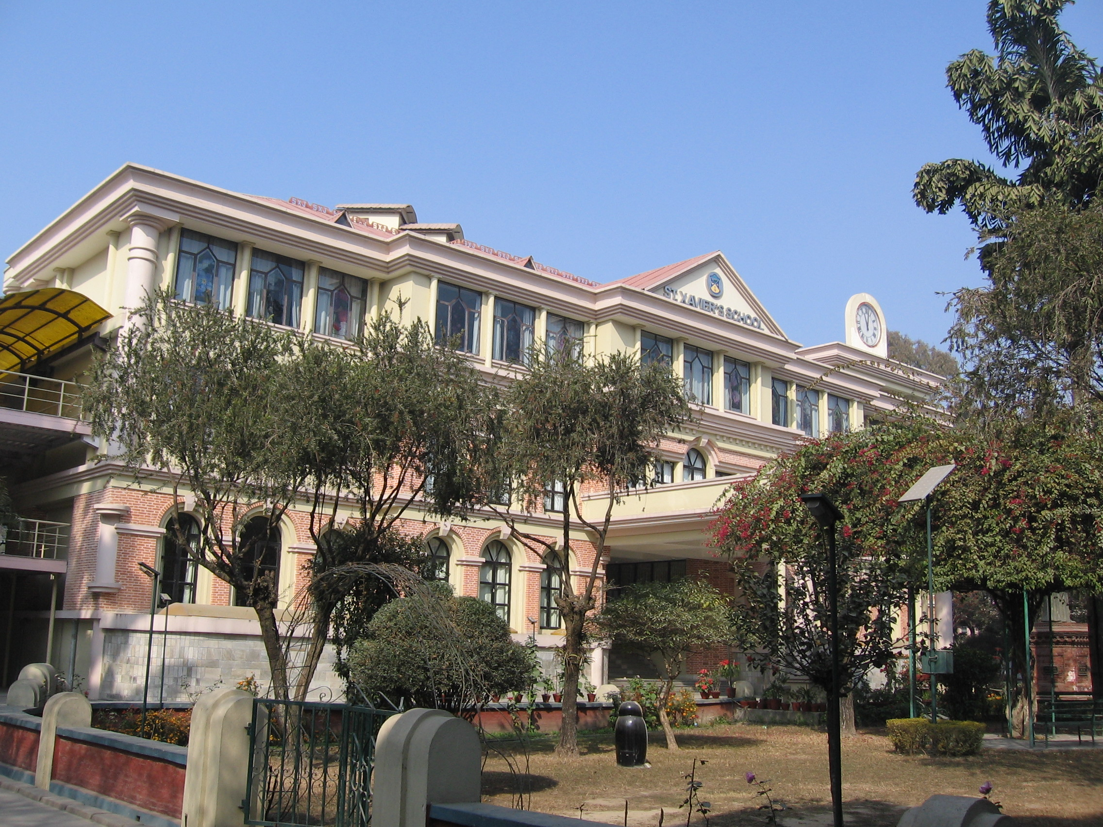 Jesuit High School of Jawalakhel (Kathmandu), in Nepal